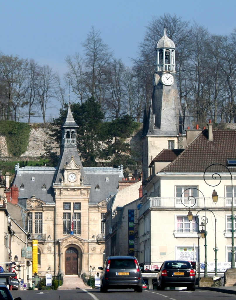 View on the town hall, the Balhan tower and the ramparts of Château-Thierry, Picardie, Aisne, France.